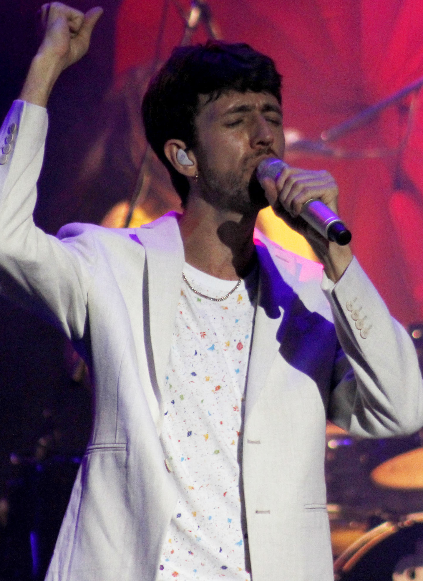 Domingo 29 de junio de 2019En el Teatro de la Ciudad Esperanza Iris, se presentó el cantante colombiano Esteman con su concierto Amor libre.Fotografía: Itzel Romero / Secretaría de Cultura de la Ciudad de México